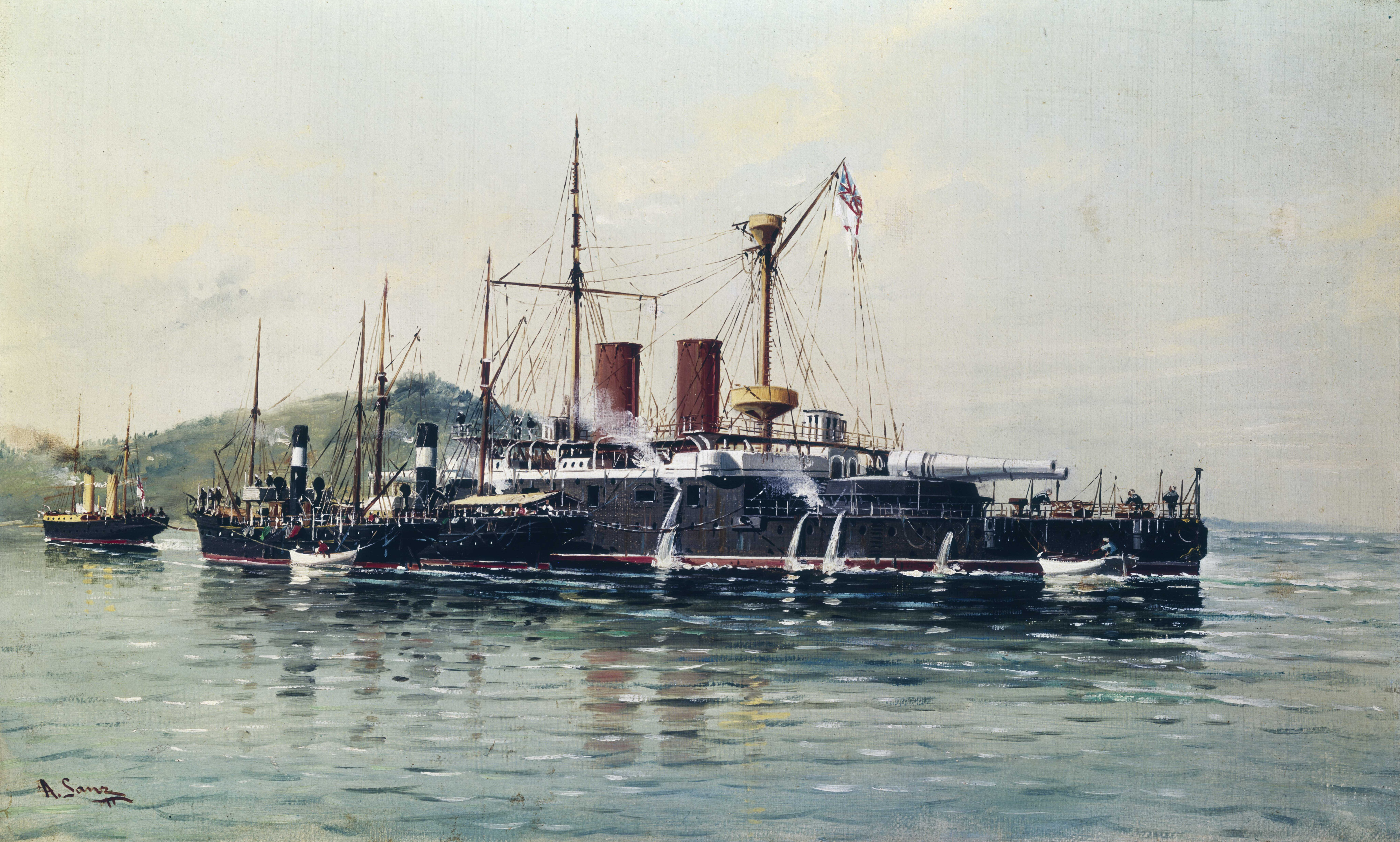 HMS Howe being towed into Emsenanda de la Malata by HMS Seahorse with salvage steamers alongside A painting recording the towing of the battleship ‘Howe’ into Ferrol in April 1893 having run aground on Ferrol Rock on 2 November 1892 during service in the Mediterranean. The crew were transferred to the ‘Royal Sovereign’ as the ship was initially thought to be beyond repair. She was finally salvaged with great difficulty, which is the process shown in the painting with HMS ‘Seahorse’ on the far left pulling the ‘Howe’. The tow rope is clearly visible as they move towards the Spanish coastline. After running aground the ‘Howe’ was salvaged in order to be repaired. Water can be seen pouring out of the ship as the careful operation gets under way and small boats hover round the ship. The painting is signed ‘A. Sanz’ and is dated 1893. HMS ‘Howe’ being towed into Emsenanda de la Malata by HMS ‘Seahorse’ with salvage steamers alongside